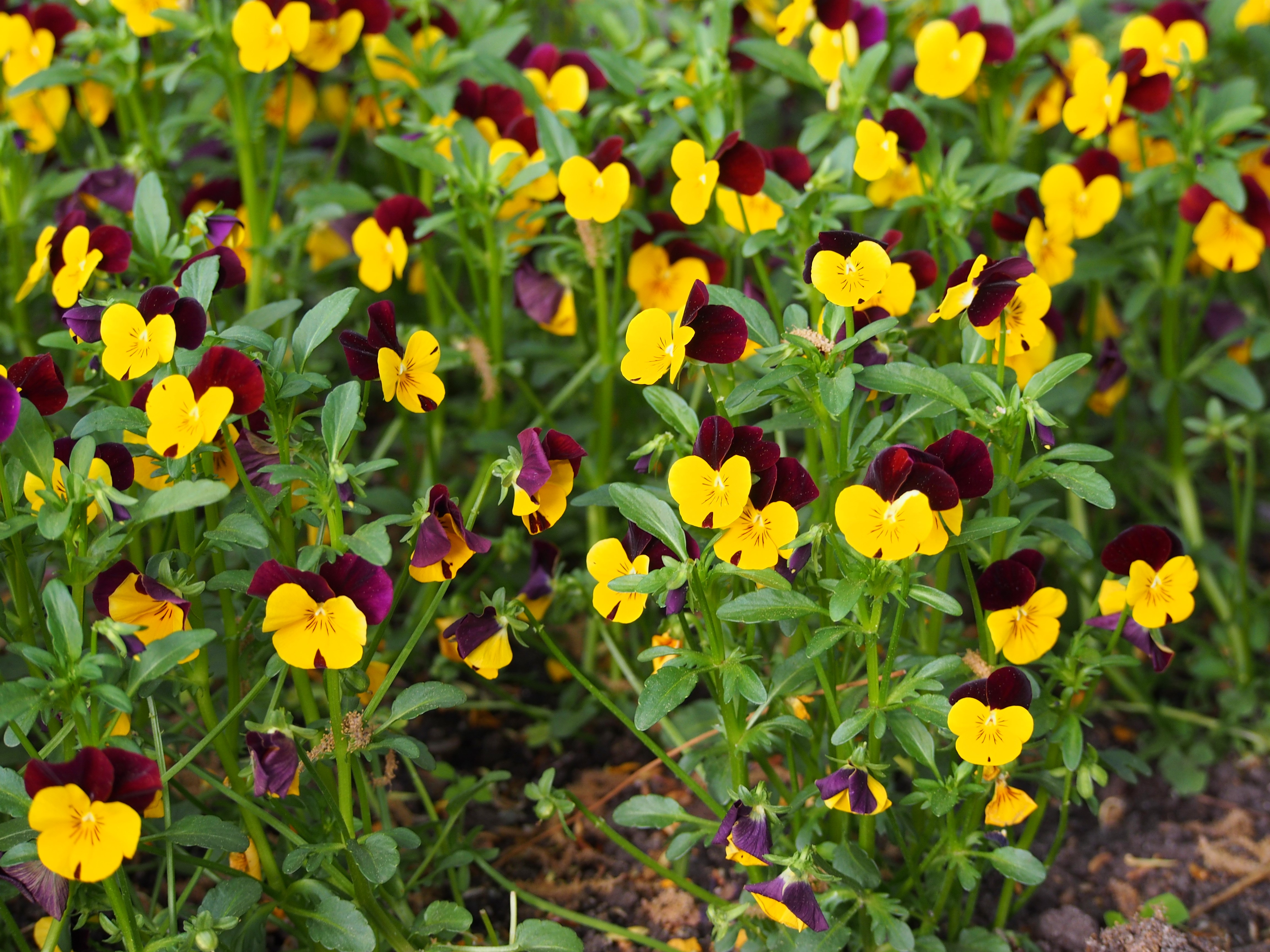 Viola cornuta 'Twix Yellow Red Wing', flower color: yellow and red. Plants cultivated in Wrocław University Botanical Garden, Wrocław, Poland.